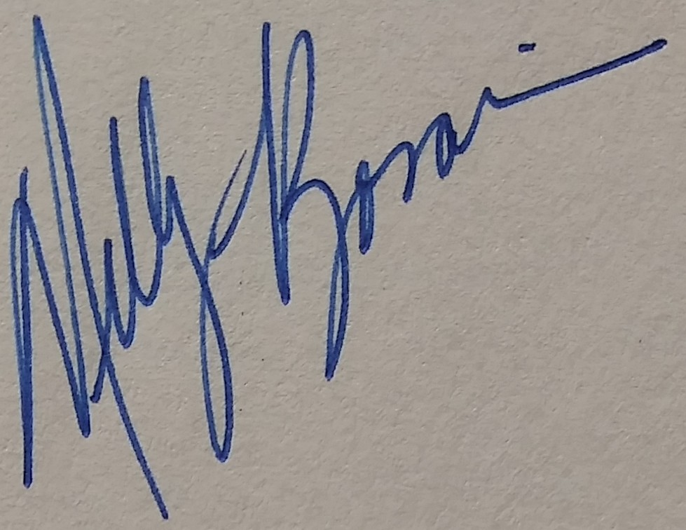 Nelly Rosario's signature, cropped from an image of this signed page